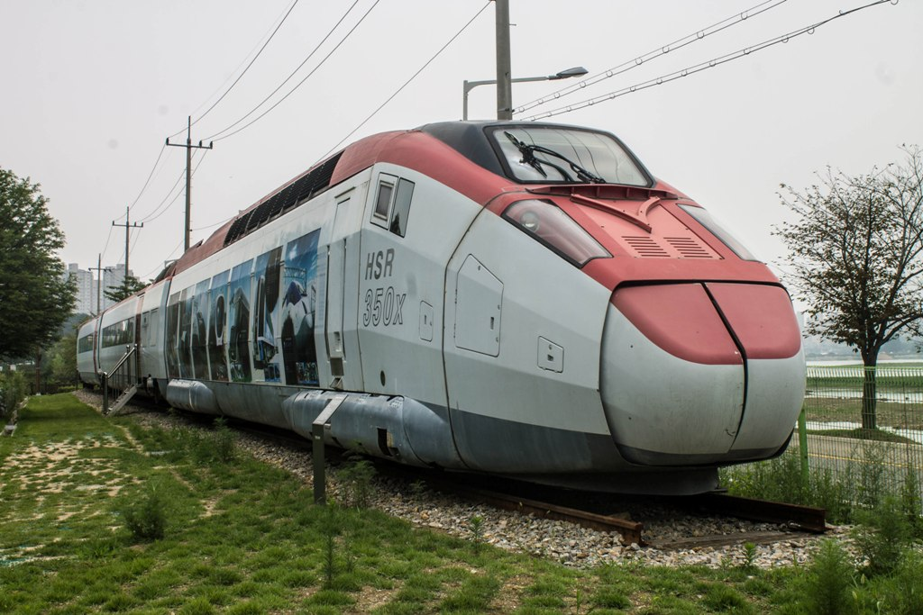 Korail HSR-350x "Hanvit" prototype vehicle in Uiwang, Gyeonggi-do, South Korea.